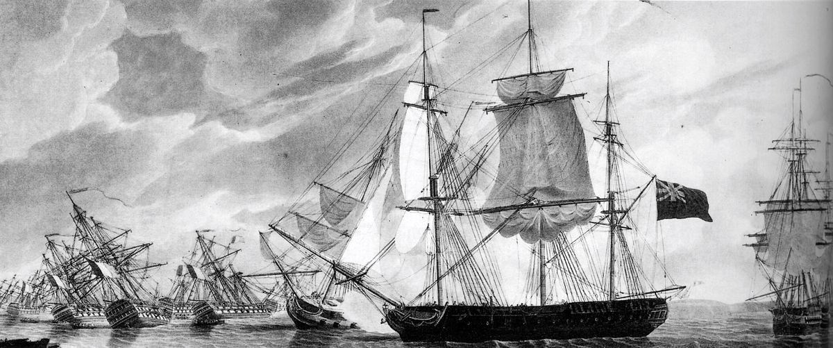 This View of the Enemy's Fleet aground at the mouth of the River Charent, after being forced to run from their Anchorage by the Fire Ships with the Imperieuse and other Frigates advancing to attack them, on the morning of the 12th of April 1809